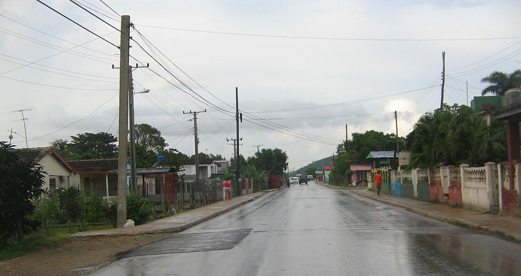 View of the main road of Mataguá after the rain. The road is the state highway 474 Santa Clara-Manicaragua, named "Carretera de Manicaragua".